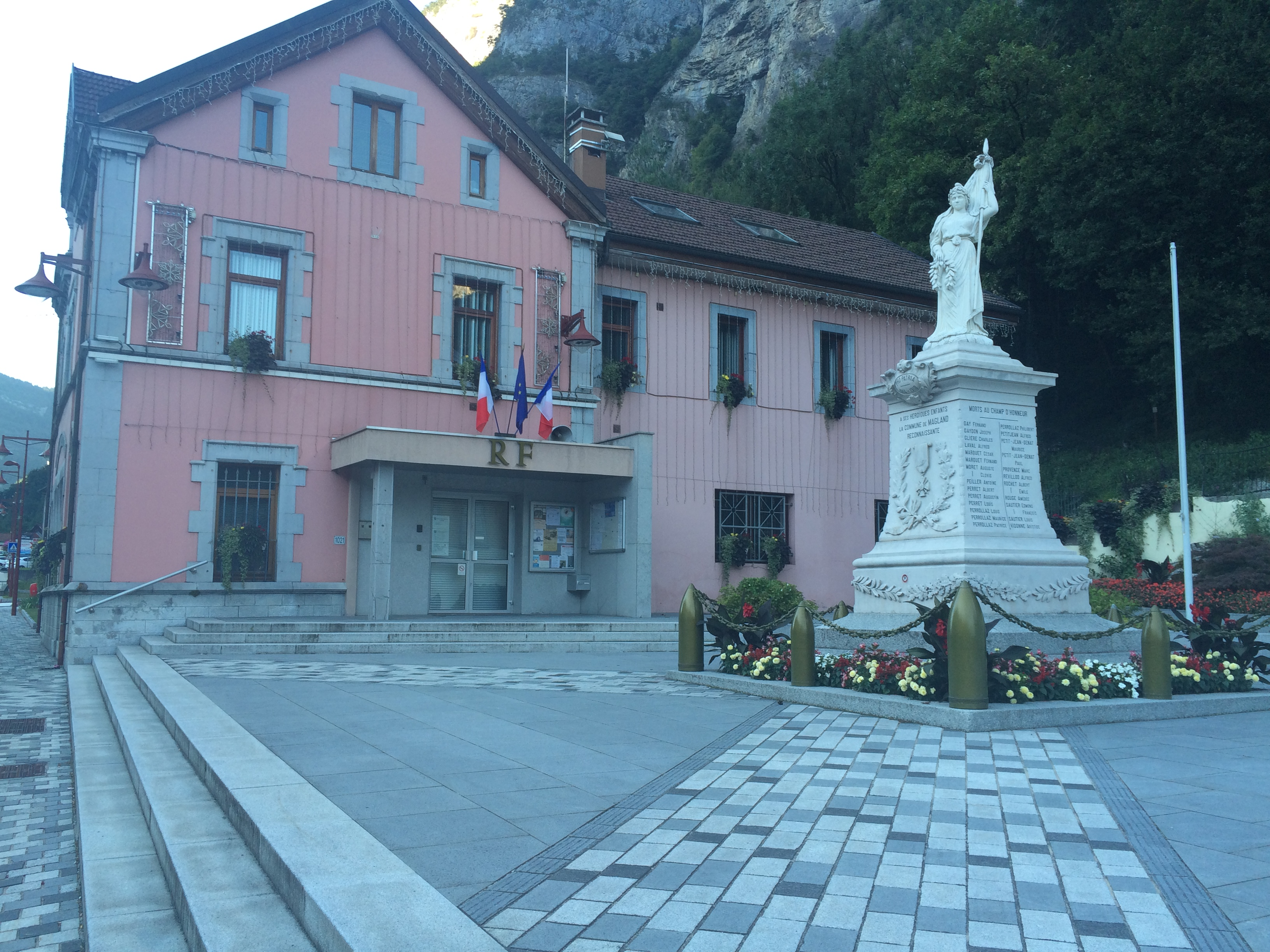 City hall and war memorial of Magland, August, 2016